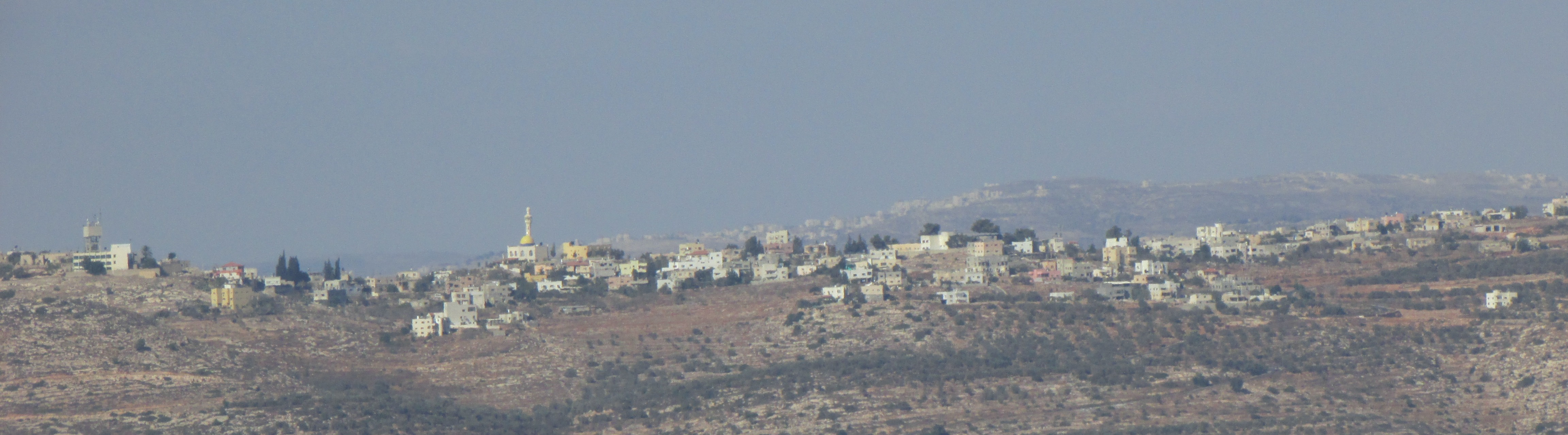 Farkha from the south, from Halamish